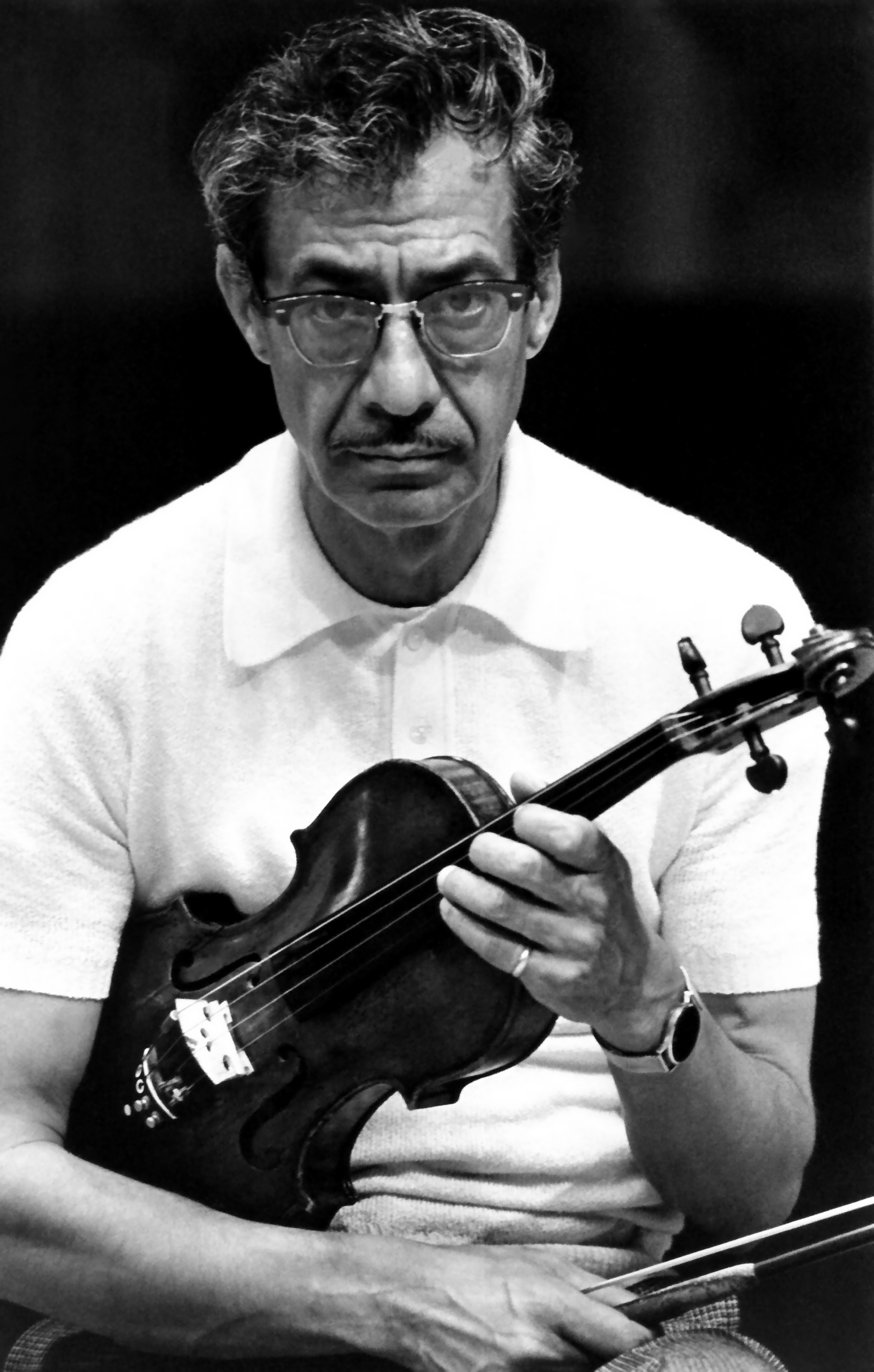 Luis Ximénez Caballero - Orchestra conductor (1971)